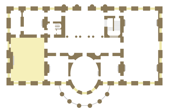 Floor plan of White House State Floor showing location of the State Dining Room. 21.02.07, Jim Hood